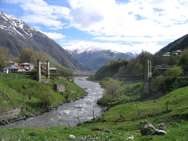 Suspension bridge in Kazbegi district, Mtskheta-Mtianeti Georgia